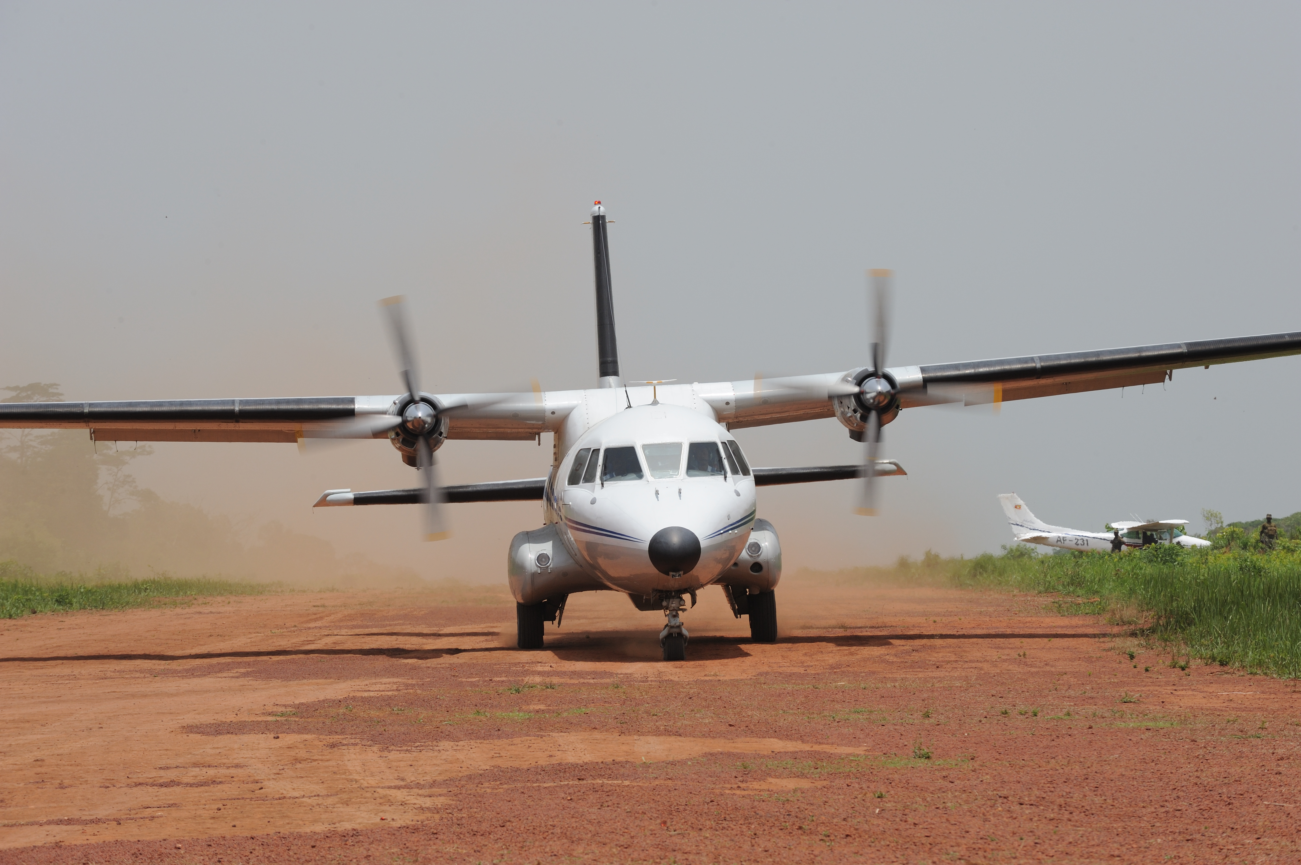 Doruma Airport , "not an easy landing", Getting aid into Doruma is difficult. Traders have been killed on the road into Doruma so aid has to be flown in. UNICEF and Solidarités flew in twenty five tons of tarpaulins, water containers and blankets to protect the thousands of people in the open from respiratory and water borne diseases. The dirt airstrip is not the best there is in Congo. There is only one car in the town, it belongs to the nuns, and it was being repaired ahead of a visit by a delegation of eight bishops. So to move the twenty five tons into town the local Crisis Committee called up teams of youth on bicycles.